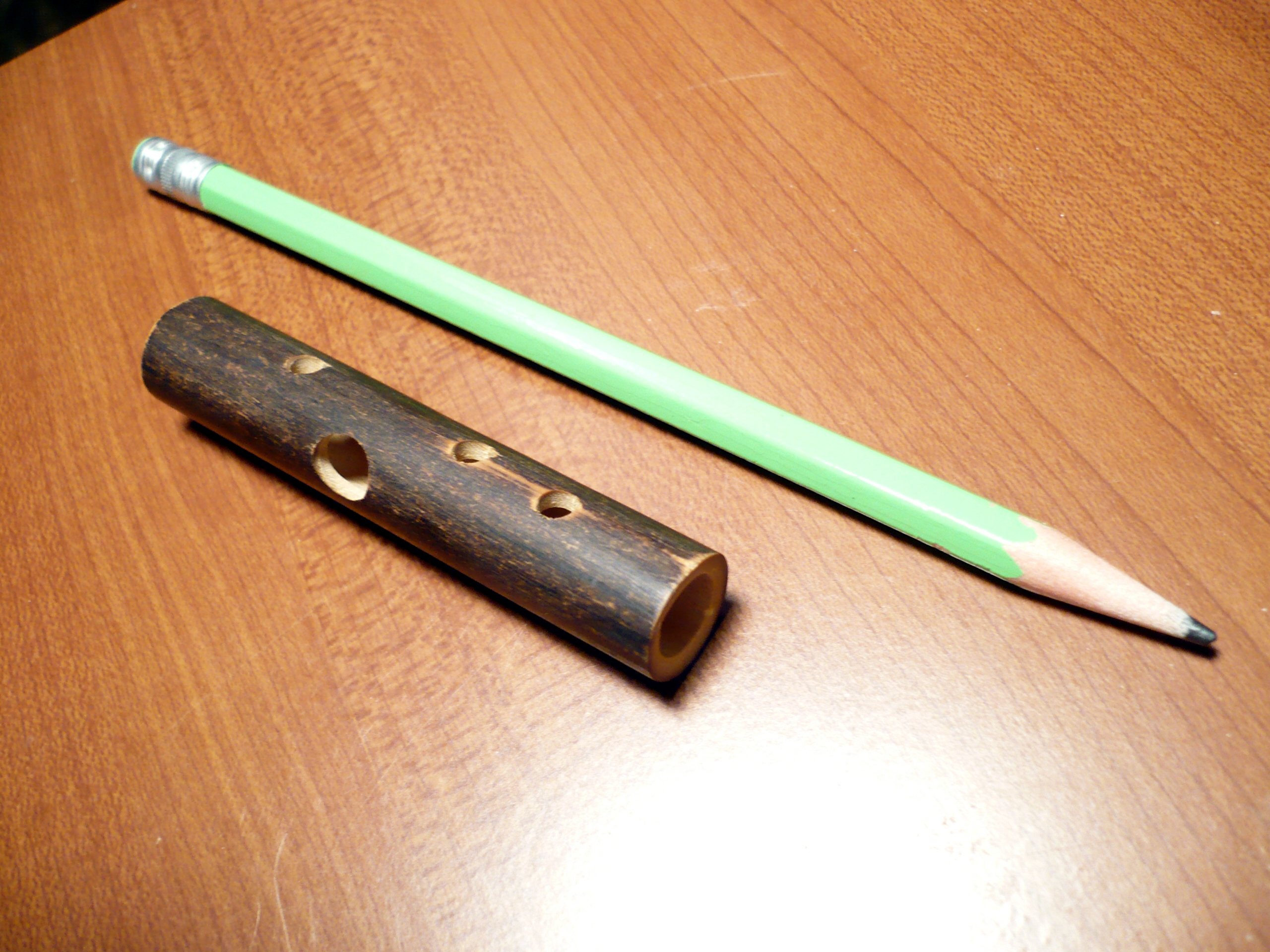 A koudi, with pencil for size comparison. The koudi was probably made in China. The large hole is the blowing hole, and three finger holes are also seen. The holes on both ends of the tube are also used, played with the thumbs.